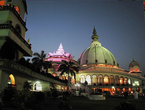 Prabhupada puspa samadhi. Mayapur